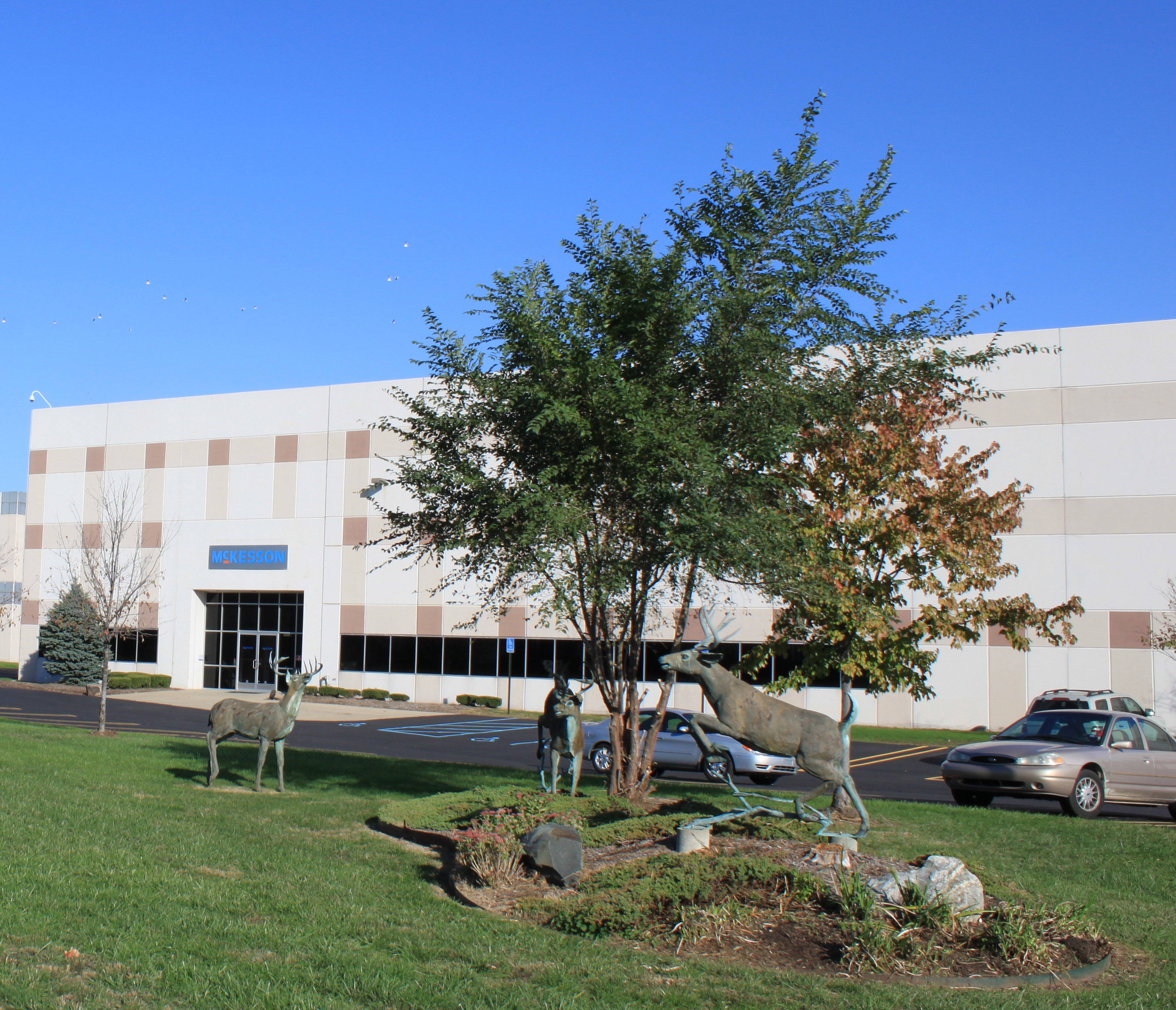 McKesson Pharmaceutical, 38220 Plymouth Road, Livonia, Michigan